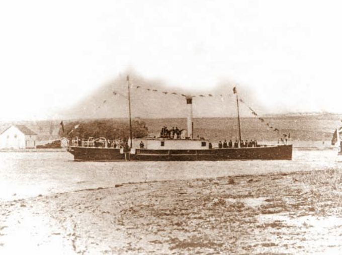 The steamboat România in 1864